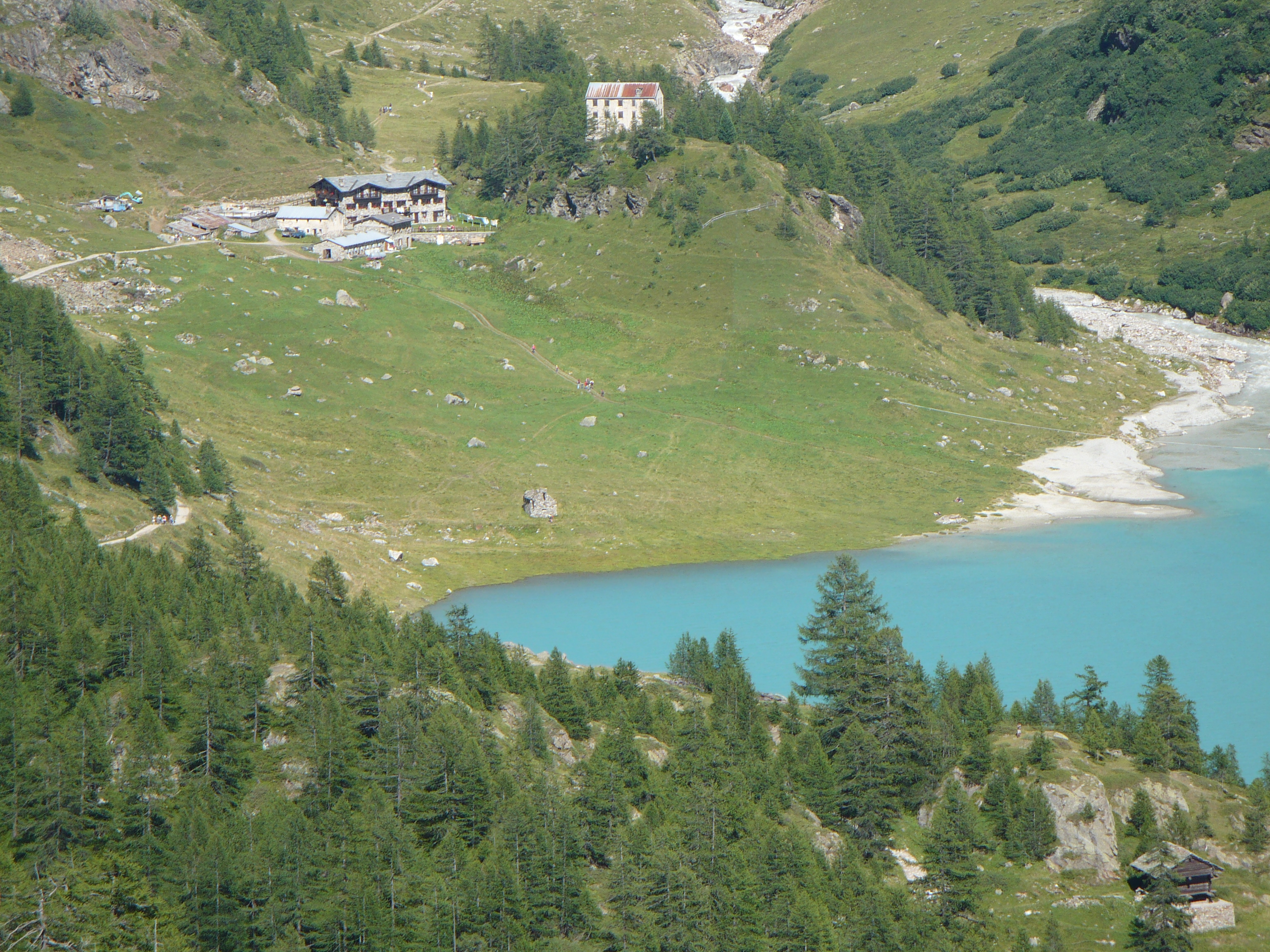 Prarayer hut - Valpelline - Aosta valley - Italy